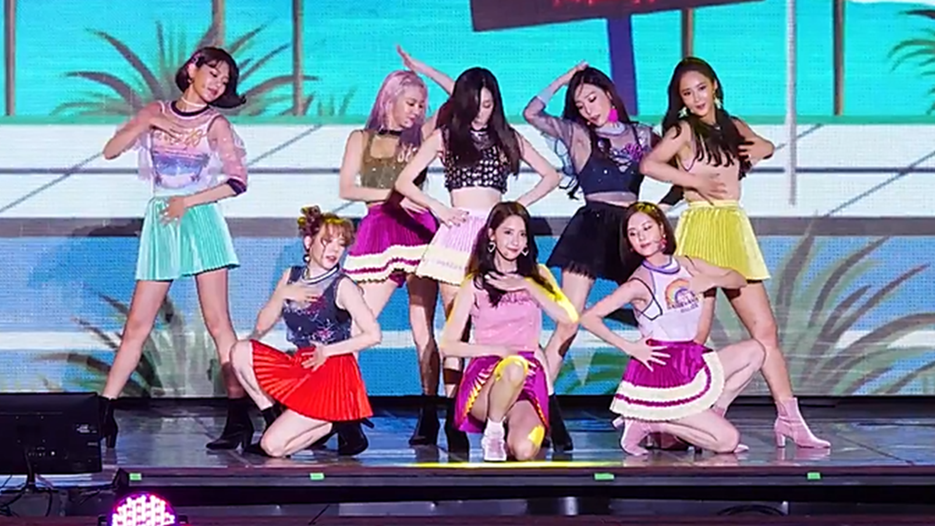 Girls' Generation performing "Holiday" at MBCDMZ Peace Concert on August 12, 2017.